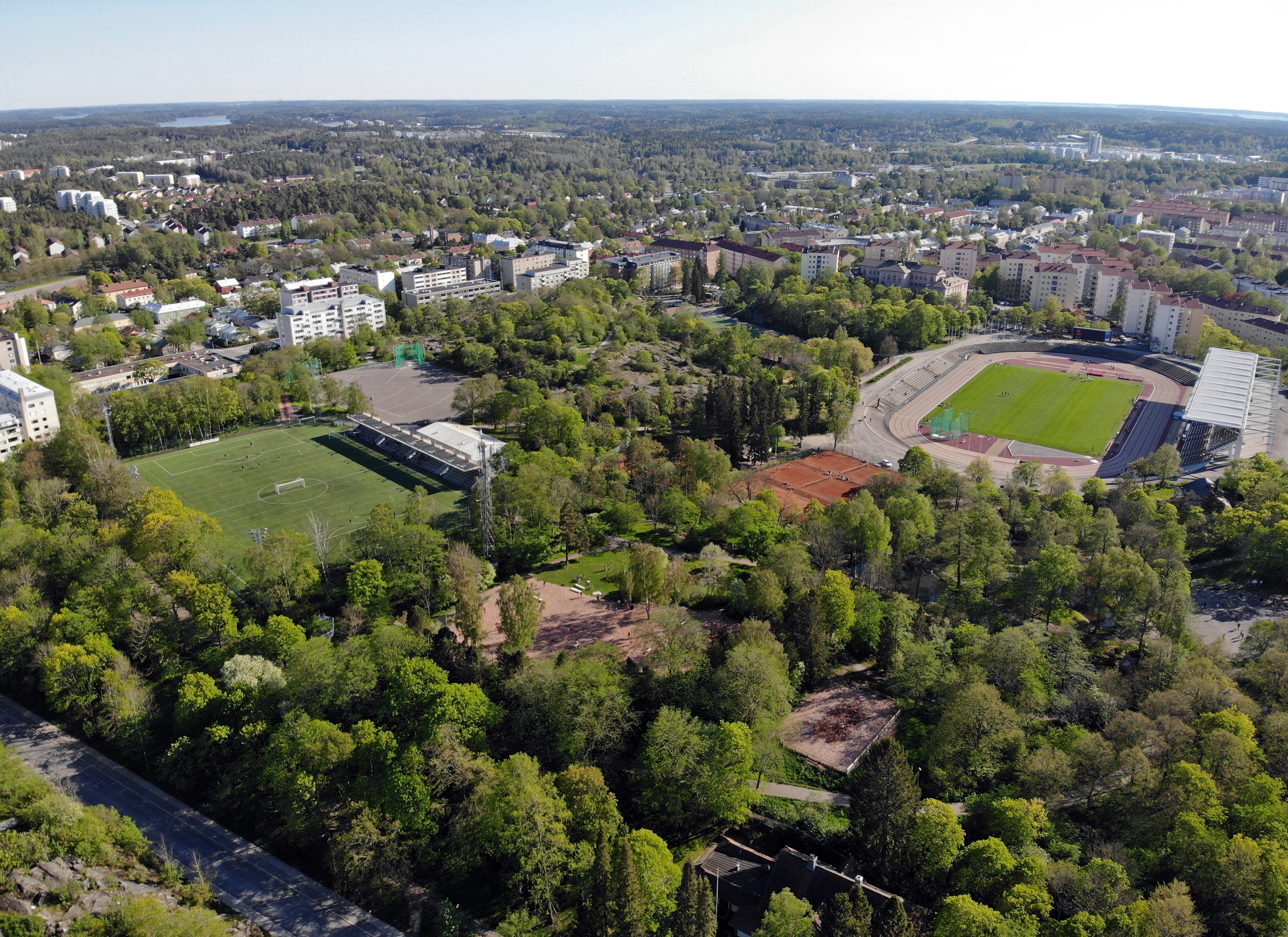 Urheilupuisto sports park, Turku.